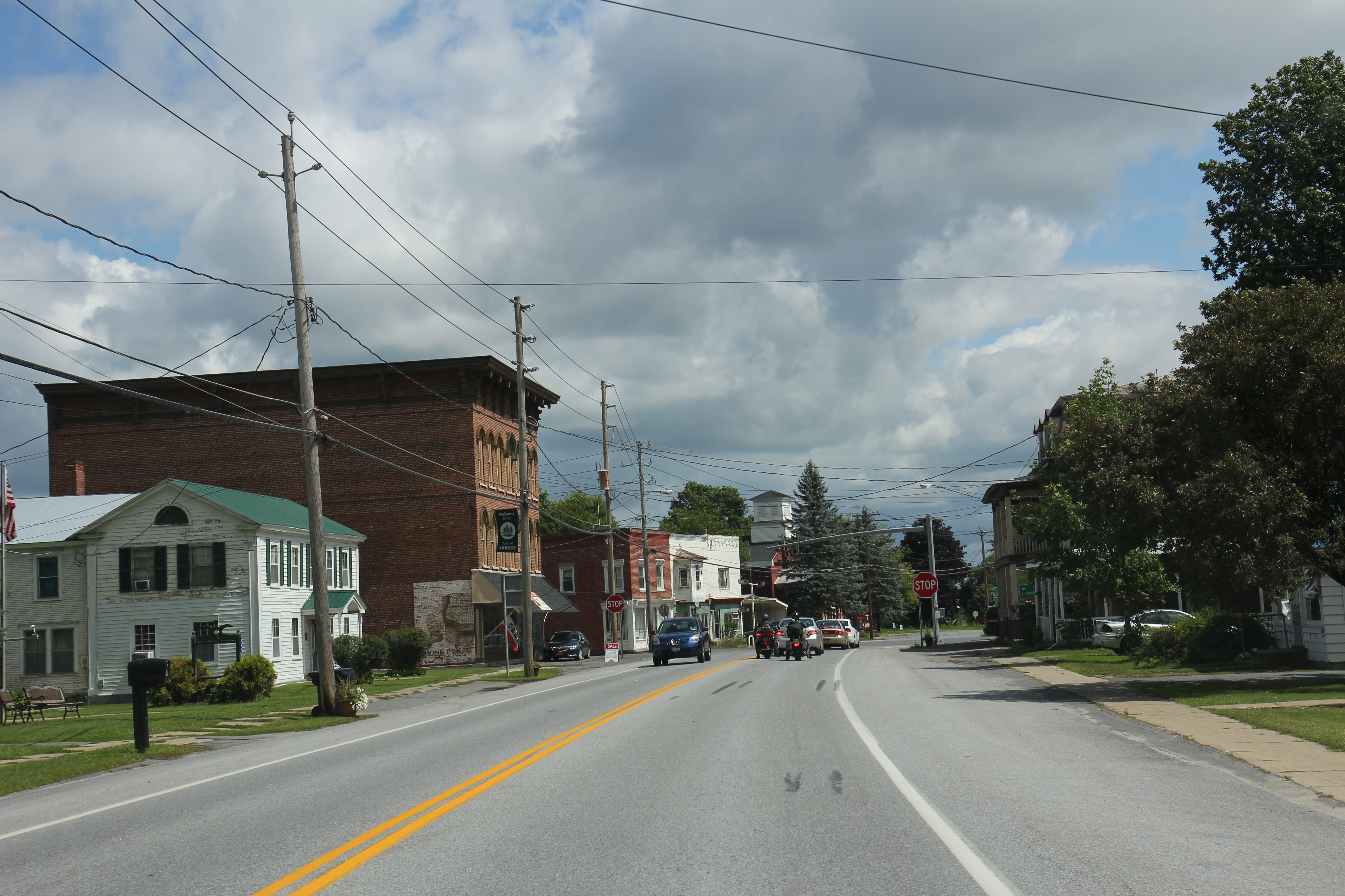 Downtown Mooers, New York, on US11.